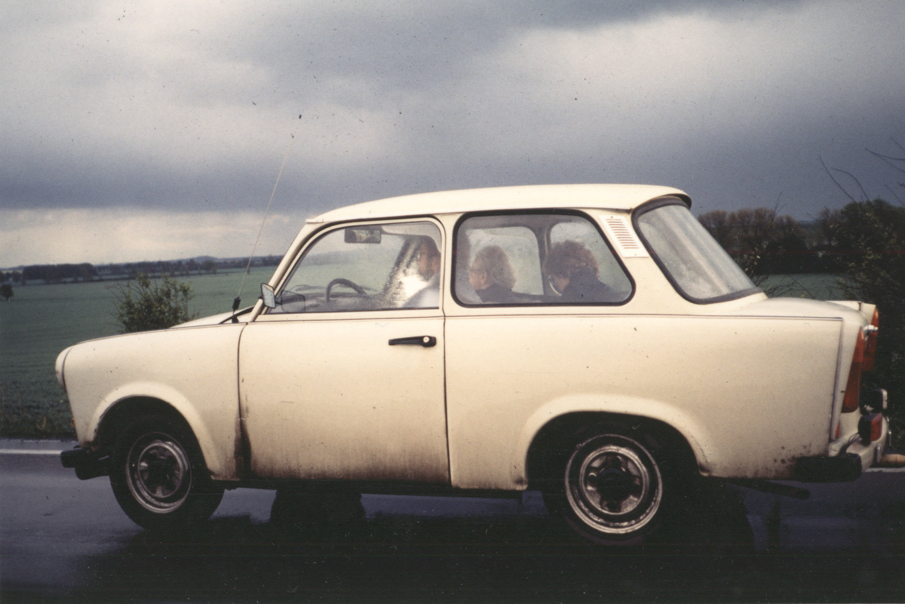 Trabi, in re-united East Germany, 1990, self-made, GNU/FDL